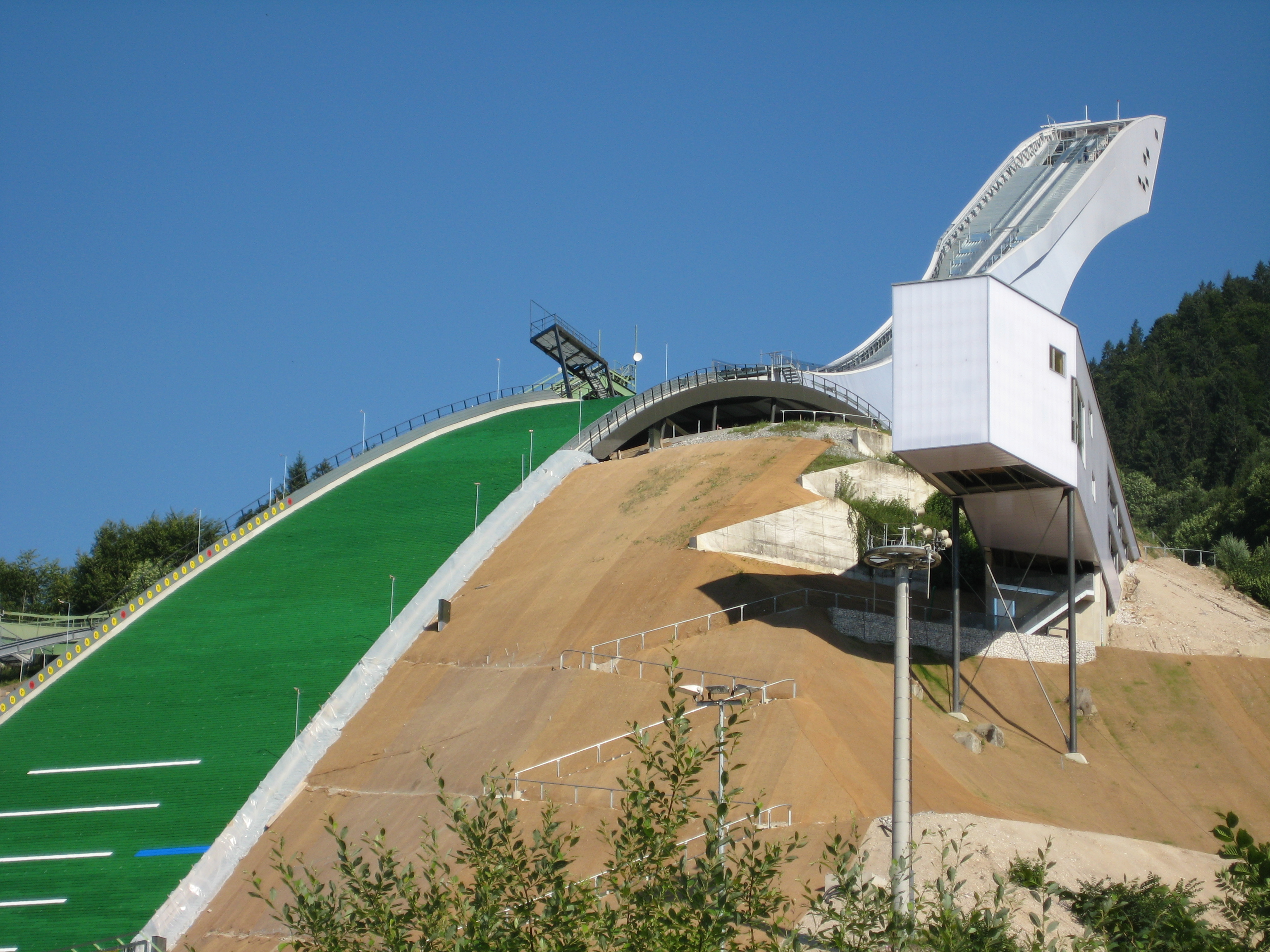 New Great Olympic ski jump in Garmisch-Partenkirchen.